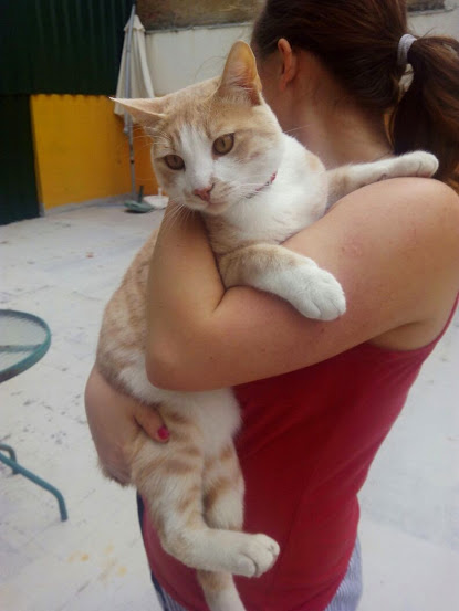 Seven-month old domesticated Aegean cat.